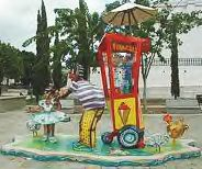 Picture of a monument dedicated to the "Piraguero", which I took in Coamo in 2008.